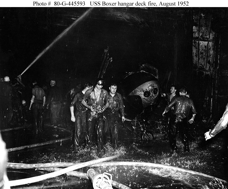 SS Boxer (CV-21) Hangar Deck Fire, 5 August 1952 Ordnancemen strip live 20mm ammunition from a damaged F9F "Panther" fighter, while firefighters bring the blaze under control. Boxer was then operating off Korea. Official U.S. Navy Photograph, now in the collections of the National Archives.